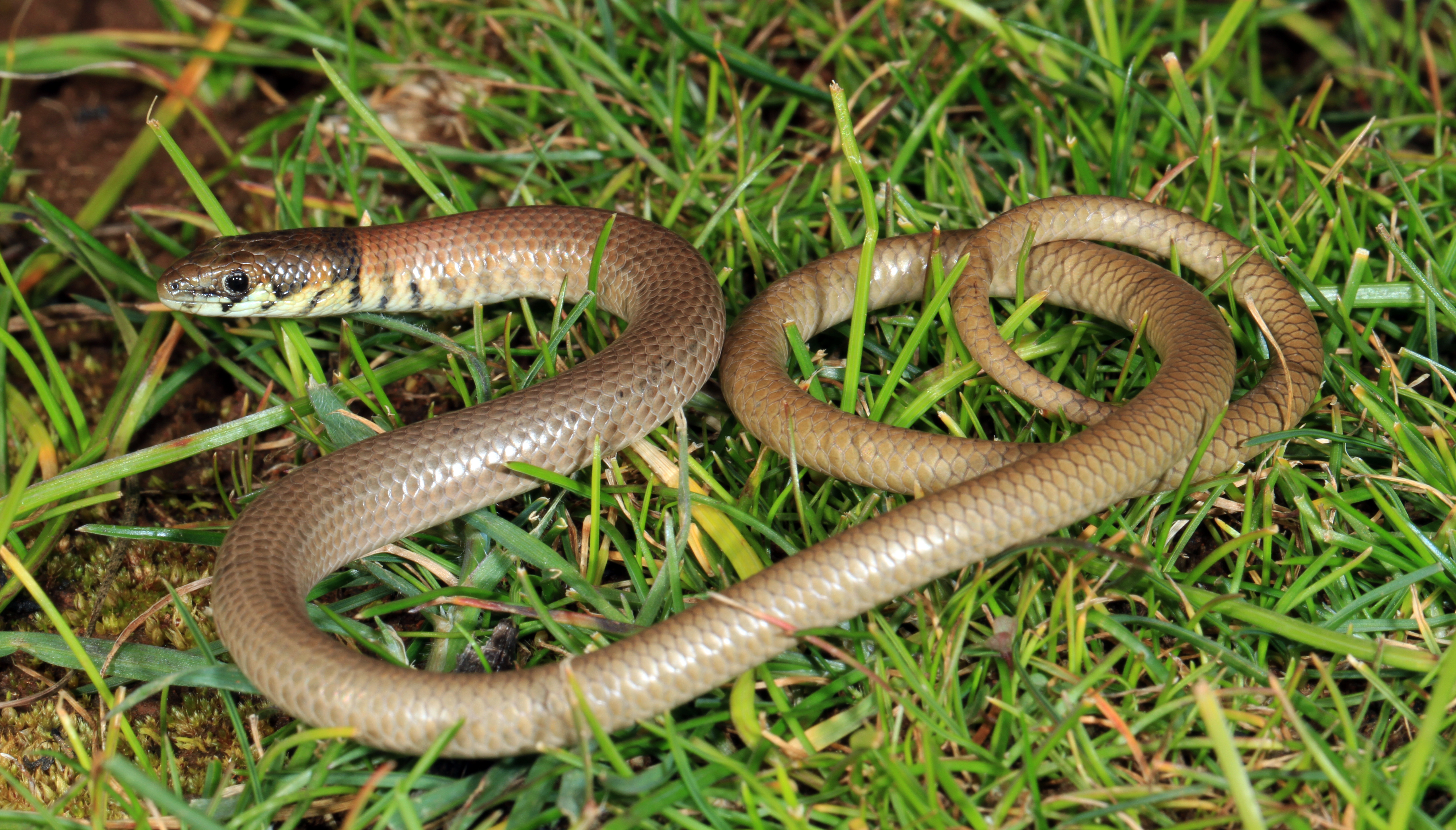 Barossa Valley, South Australia.